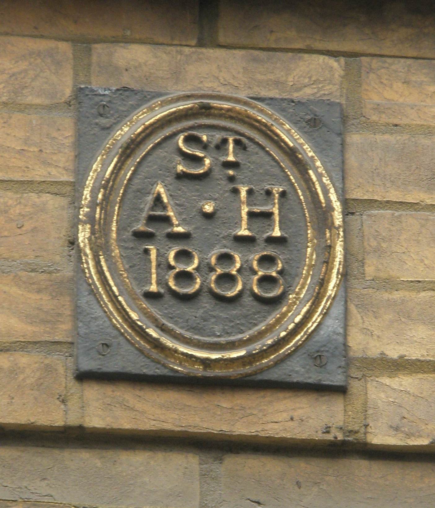 Parish bench mark in Eastcheap